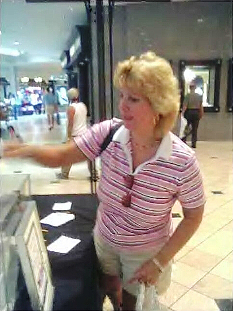 Myself shopping at a Mall in December 2005. I was member of a "Shoptilyoudrop" woman's club of Palm Beach (Florida)